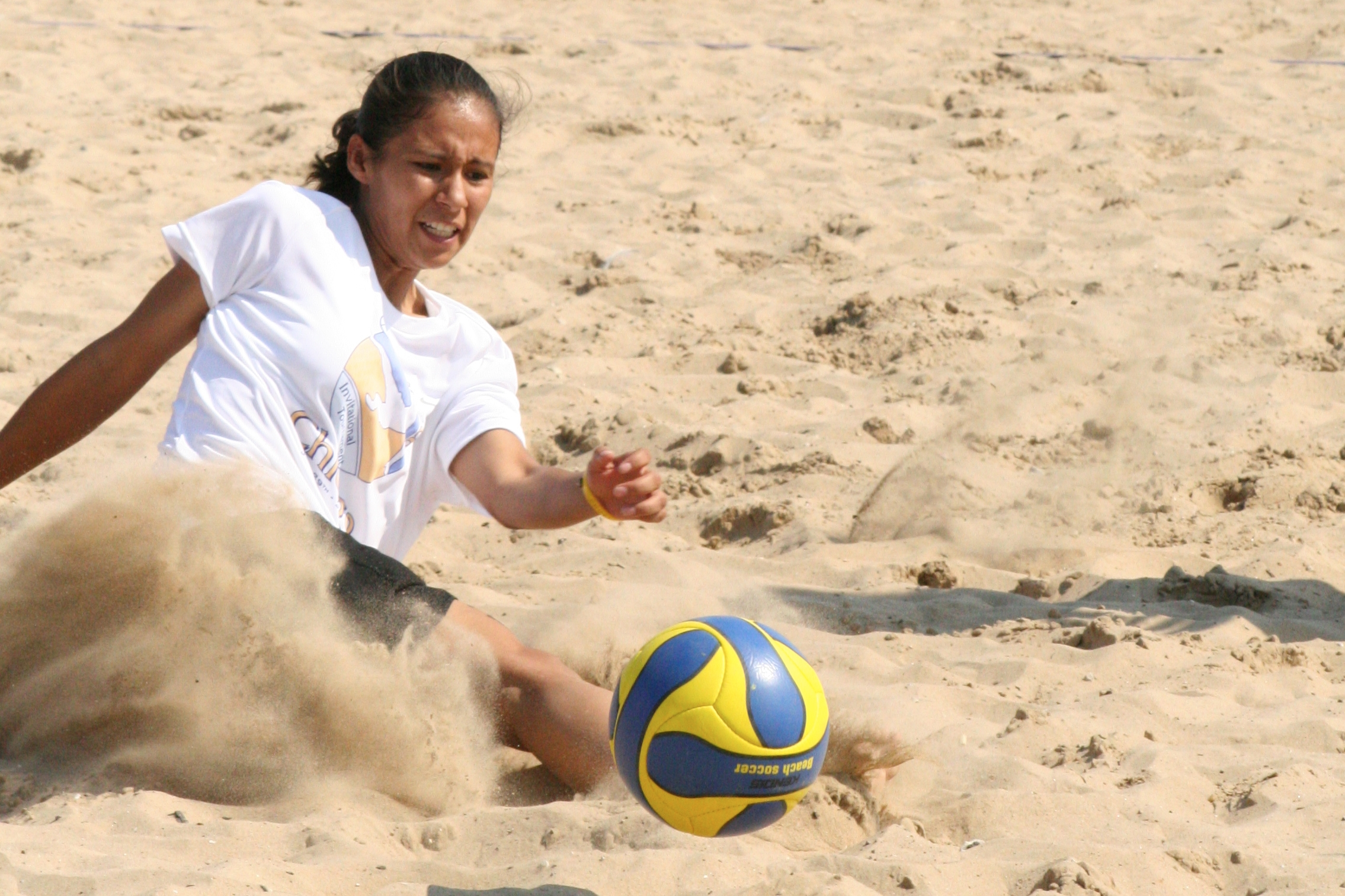 2006 Chicago Beach Soccer Invitational